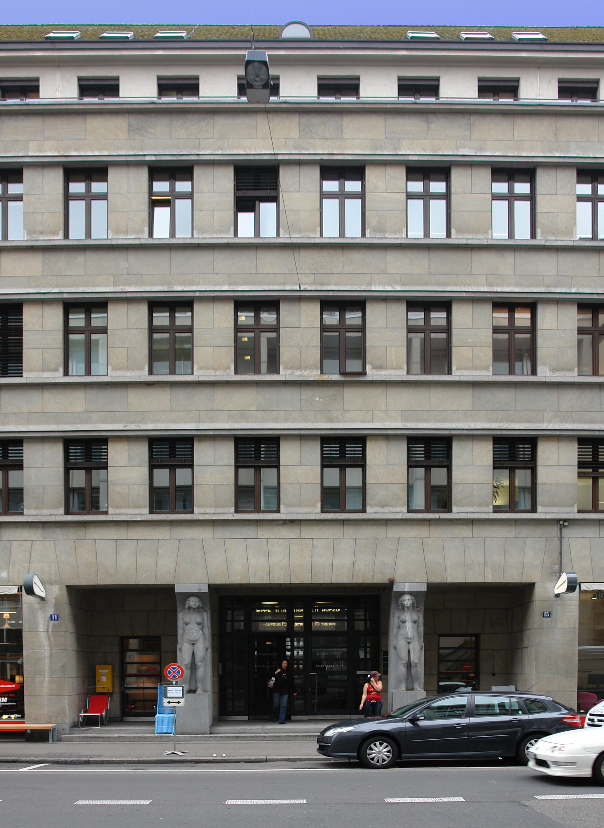 Alte Börse, former stock exchange, in this function until 1992, built 1928-30 in Zürich Switzerland, Architect: Henauer & Witschi, Detail of facade